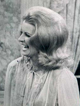 Photo of Jessie Royce Landis (J.J.'s grandmother) and Julie Sommars (J.J.) from the television program The Governor and J.J..